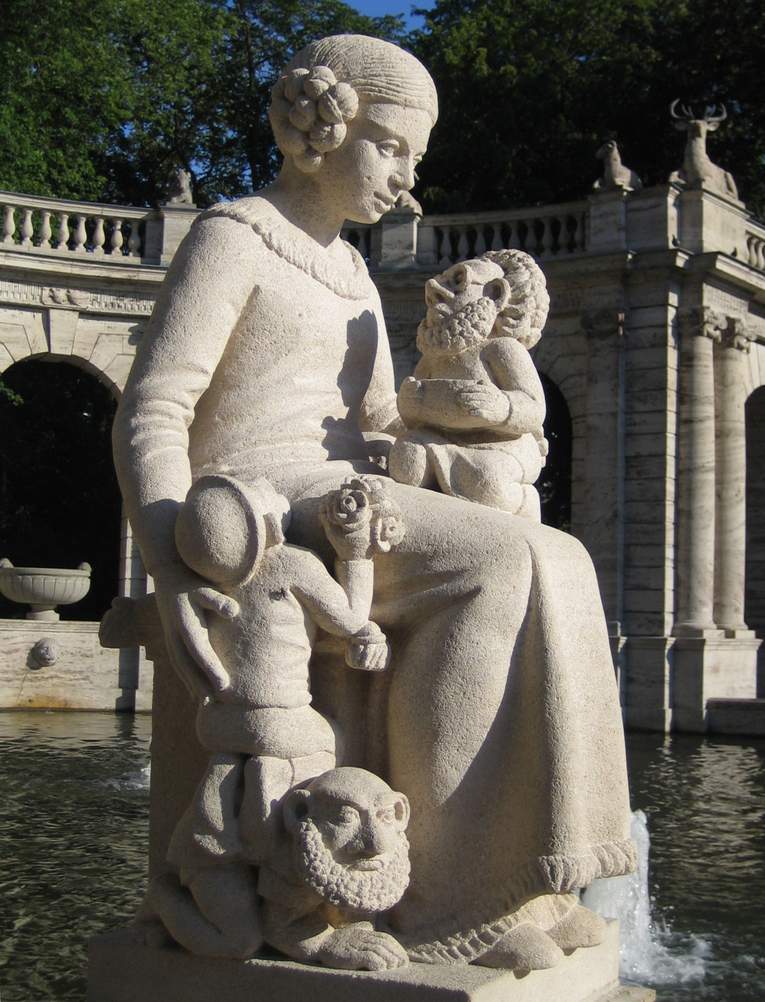 Friedrichshain locality of Berlin: Märchenbrunnen (fairy tale fountain) in the Volkspark Friedrichshain park, sculpture on the Brothers Grimm fairy tale «Snow White» by Ignatius Taschner.